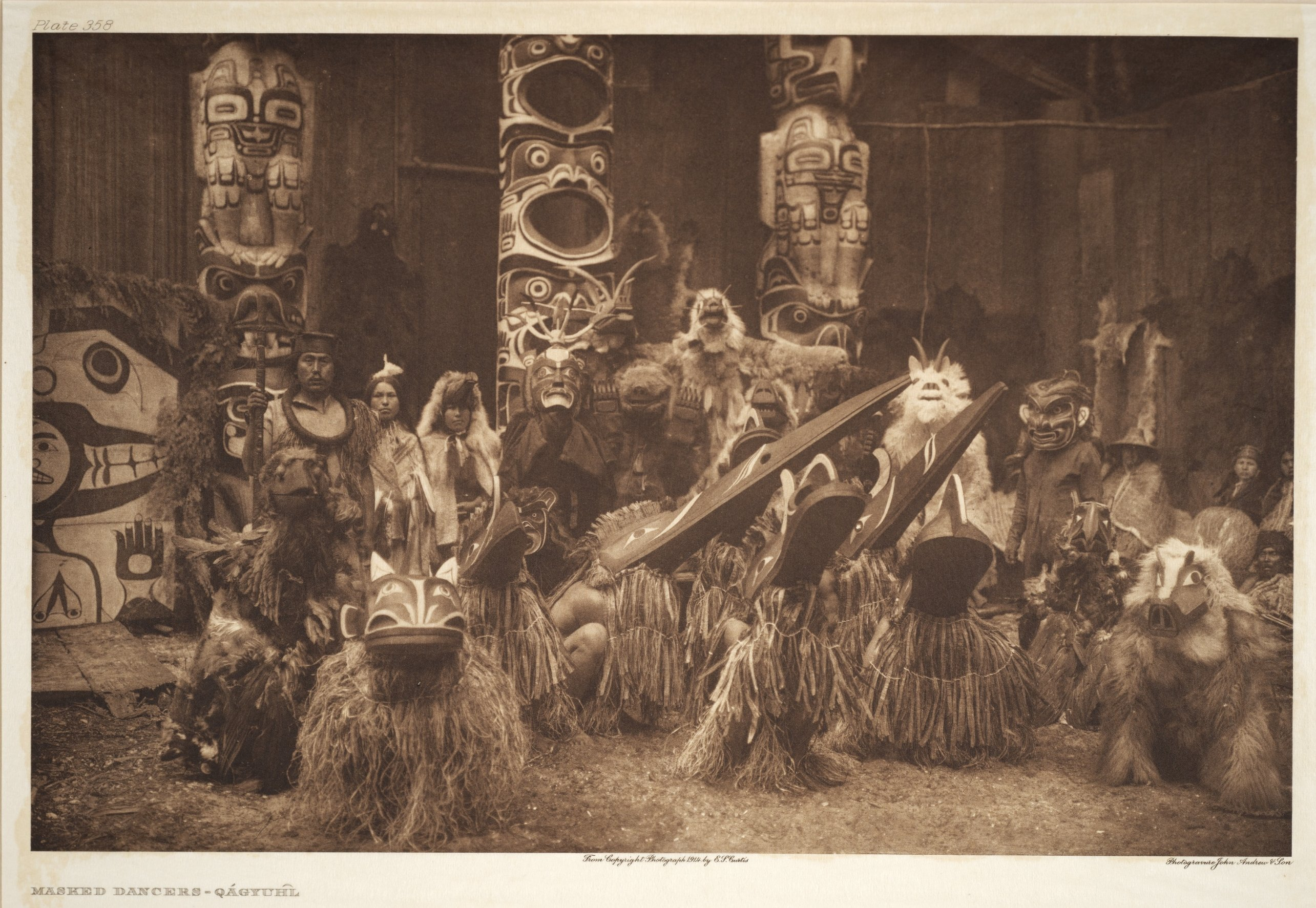 Description: This image was taken c. 1907-1930. Creator/Photographer: Edward S. Curtis Birth Date: 1868 Death Date: 1952 Medium: Photogravure Culture: American Indian Date: Prior to 1930 Persistent URL: Repository: Smithsonian Institution Libraries Collection: The North American Indian Photography of Edward Curtis - Edward S. Curtis, a professional photographer in Seattle, devoted his life to documenting what was perceived to be a vanishing race. His monumental publication The North American Indian presented to the public an extensive ethnographical study of numerous tribes, and his photographs remain memorable icons of the American Indian. The Smithsonian Libraries holds a complete set of this work, which includes photogravures on tissue, donated by Mrs. Edward H. Harriman, whose husband had conducted an expedition to Alaska with Curtis in 1899. Accession number: SIL7-058-20